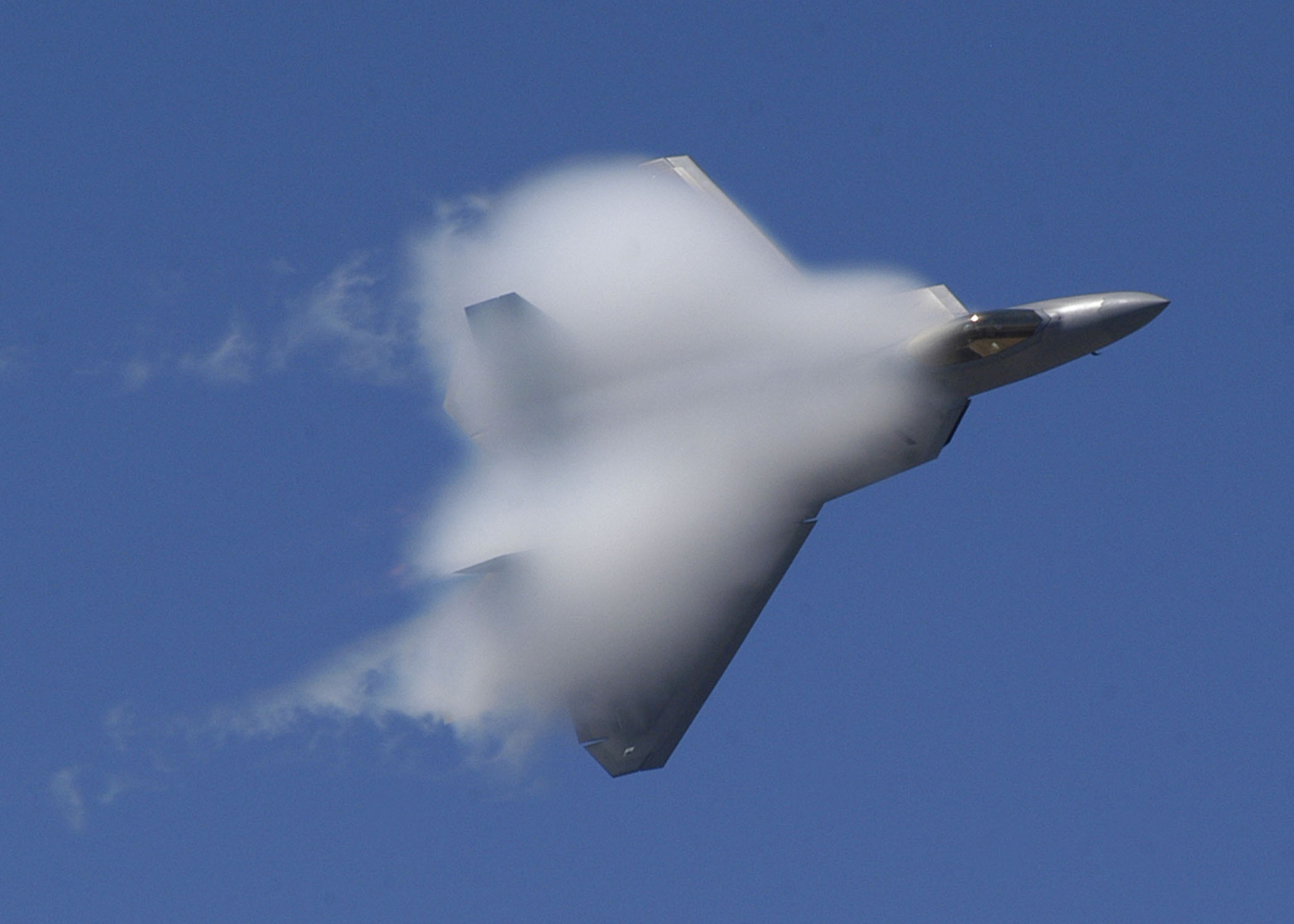 Vapor trails disperse in the wake of a U.S. Air Force F-22A Raptor aircraft at the 42nd Naval Base Ventura County (NBVC) Air Show at Point Mugu, Calif., April 1, 2007. This marks only the third time an F-22A has flown during an air show and the first demonstration at a naval base. The NBVC Air Show featured the latest civilian and military demonstration teams, attracting nearly 150,000 people.